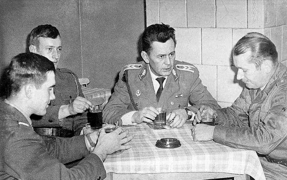 Border Protection Forces in Kietrz